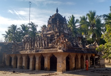 Korukkai Veeratteswarar Temple கொருக்கை வீரட்டேசுவரர் கோயில்